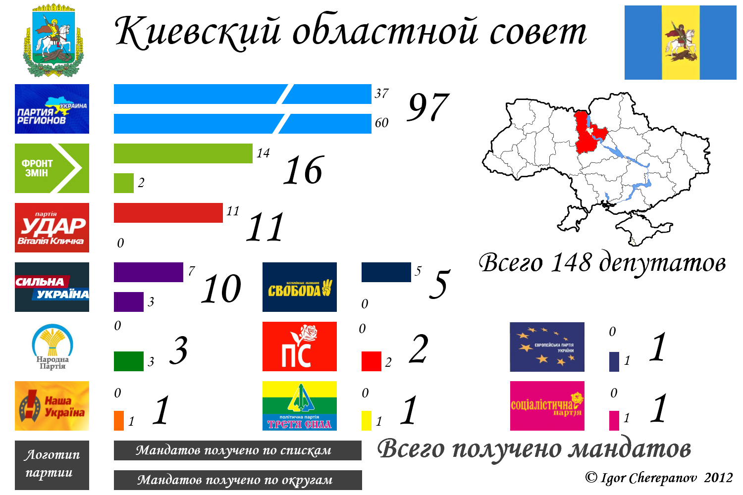 Results of Kiev Oblast local election 2010